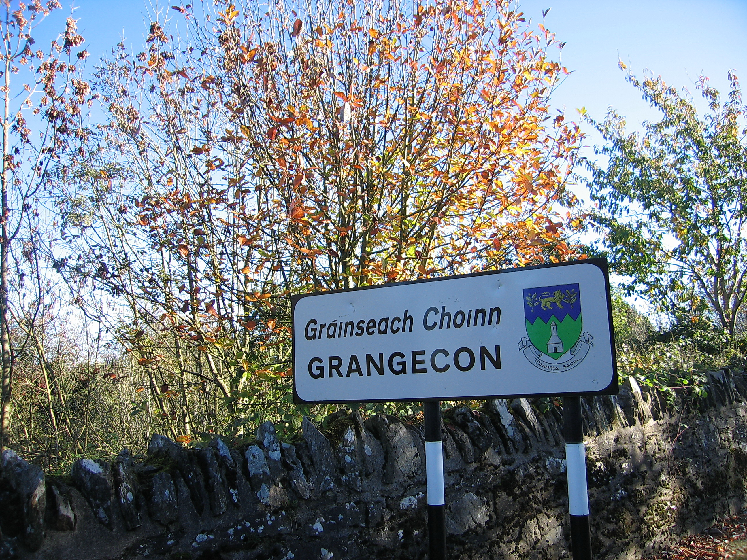 Grangecon, County Wicklow (Sarah777 02:57, 10 January 2007 (UTC))